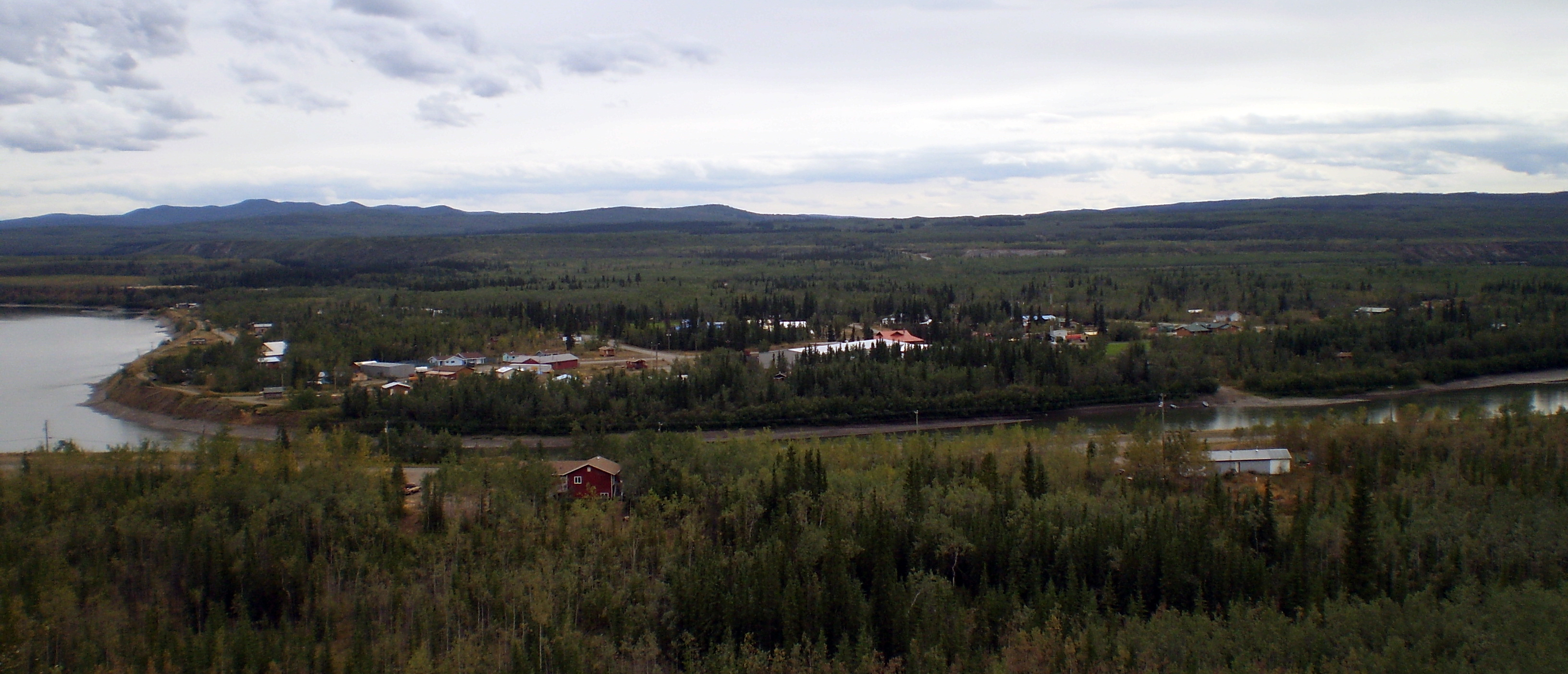 Pelly Crossing, Yukon, as seen in August 2009. In the foreground is the Pelly River.